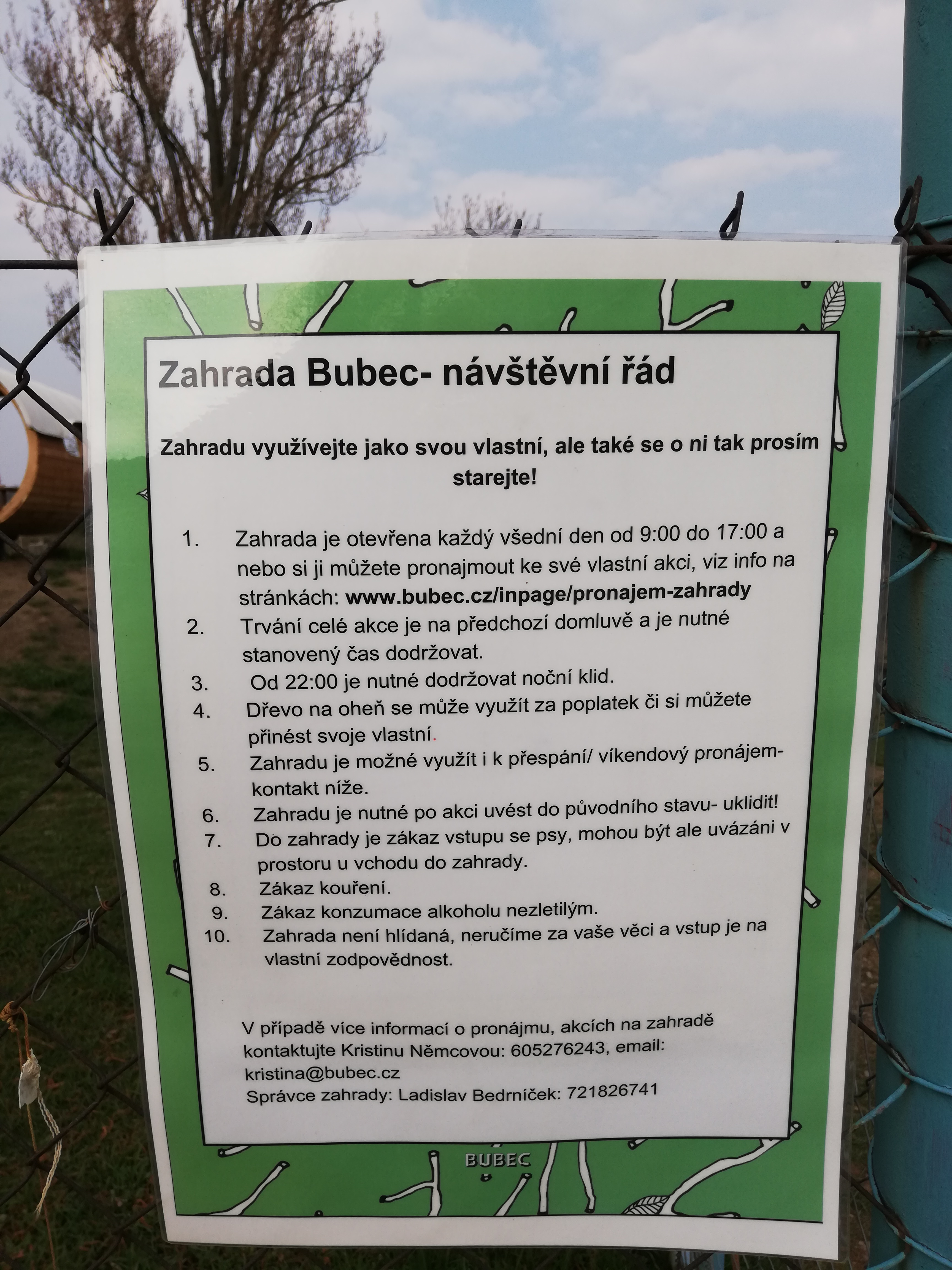 „Bubec“ Garden is a publicly accessible place; Community Center and Garden “Bubec” (Tělovýchovná 642; 155 00 Prague – Reporyje, Czech Republic)